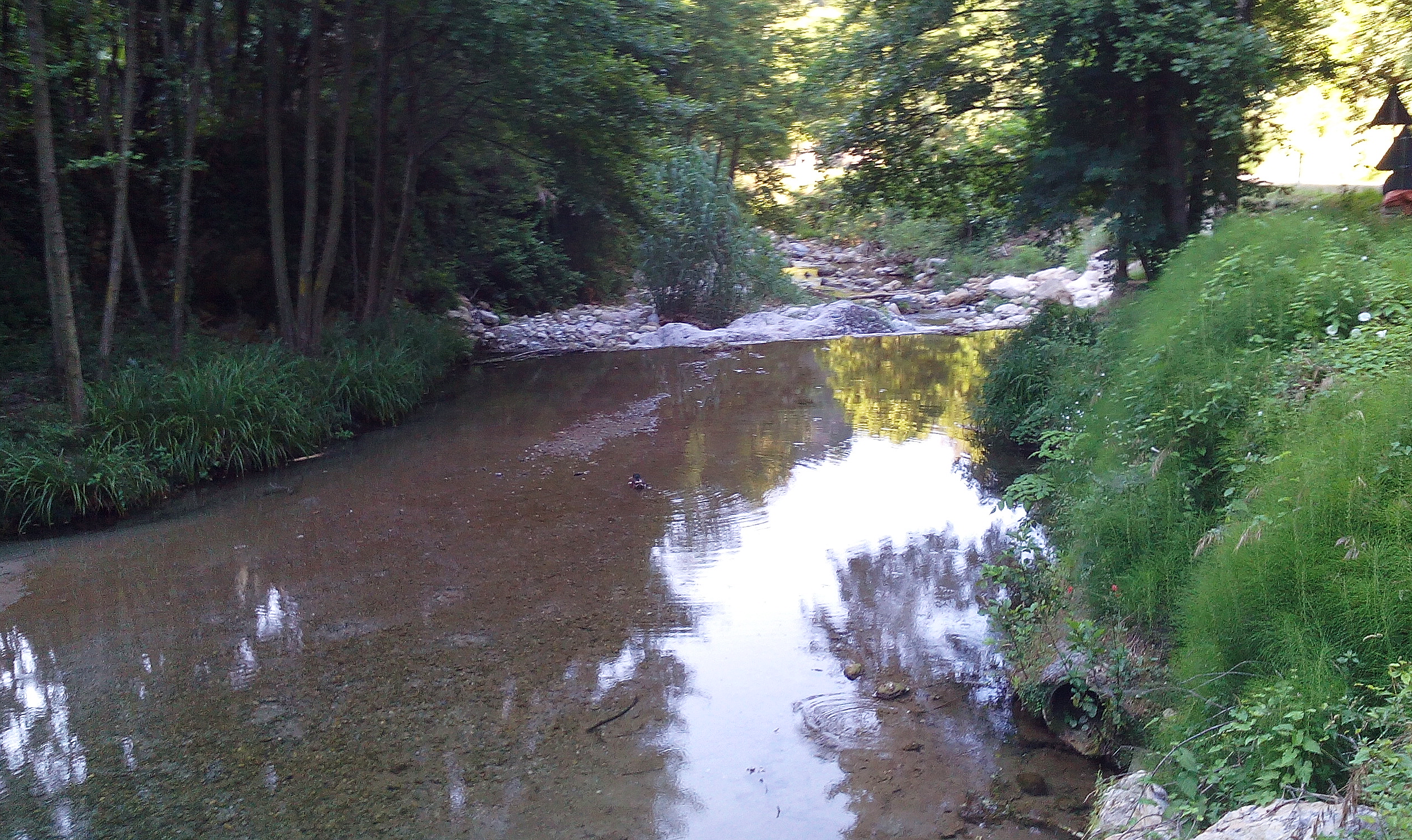 Sciusa upstream Calvisio (Finele Ligure, SV, Italy)